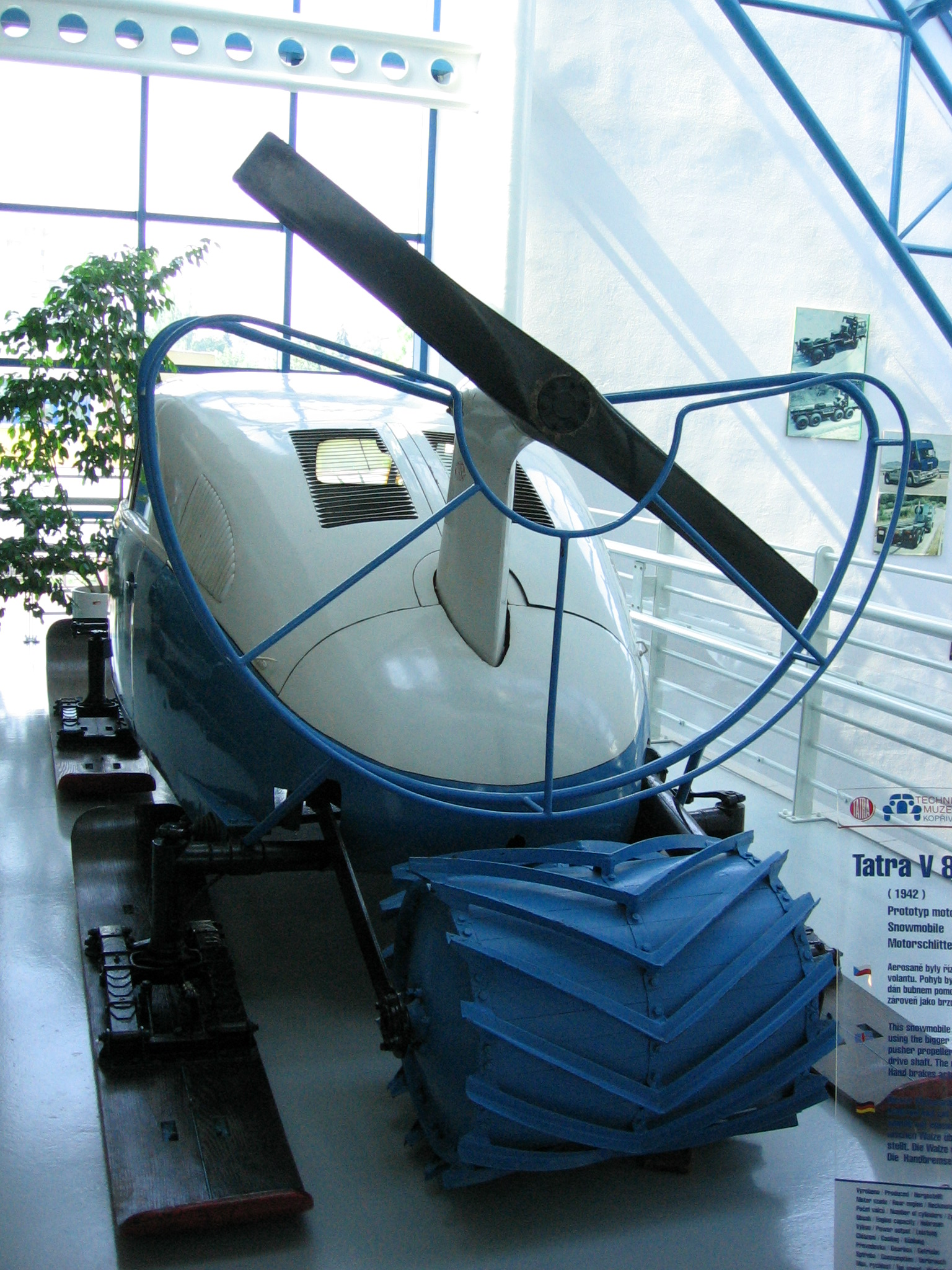 Aerosledge Tatra V 855 in Technical museum Tatra in Kopřivnice, Czech Republic